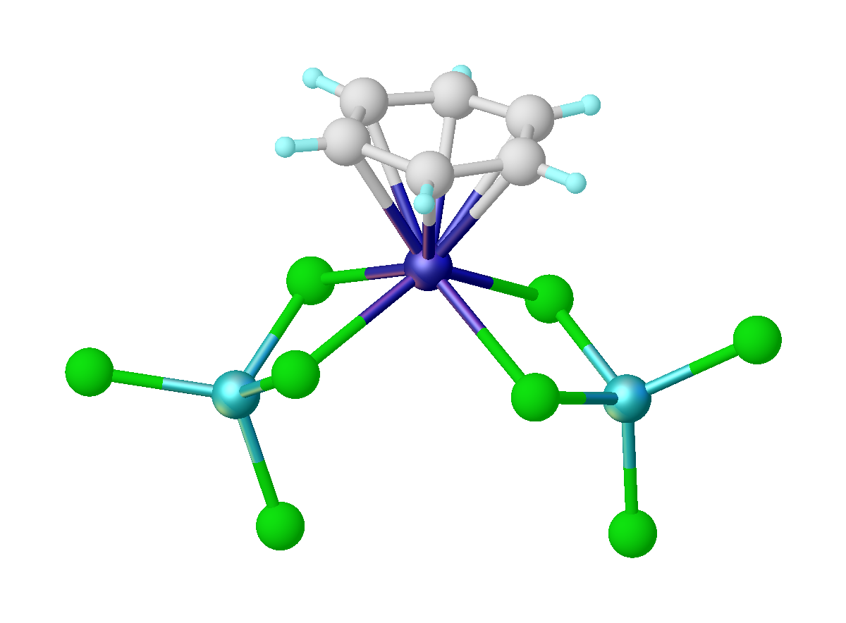 structure of (C6H6)Ti(AlCl4)2 from doi 10.1016/S0022-328X(00)87093-X